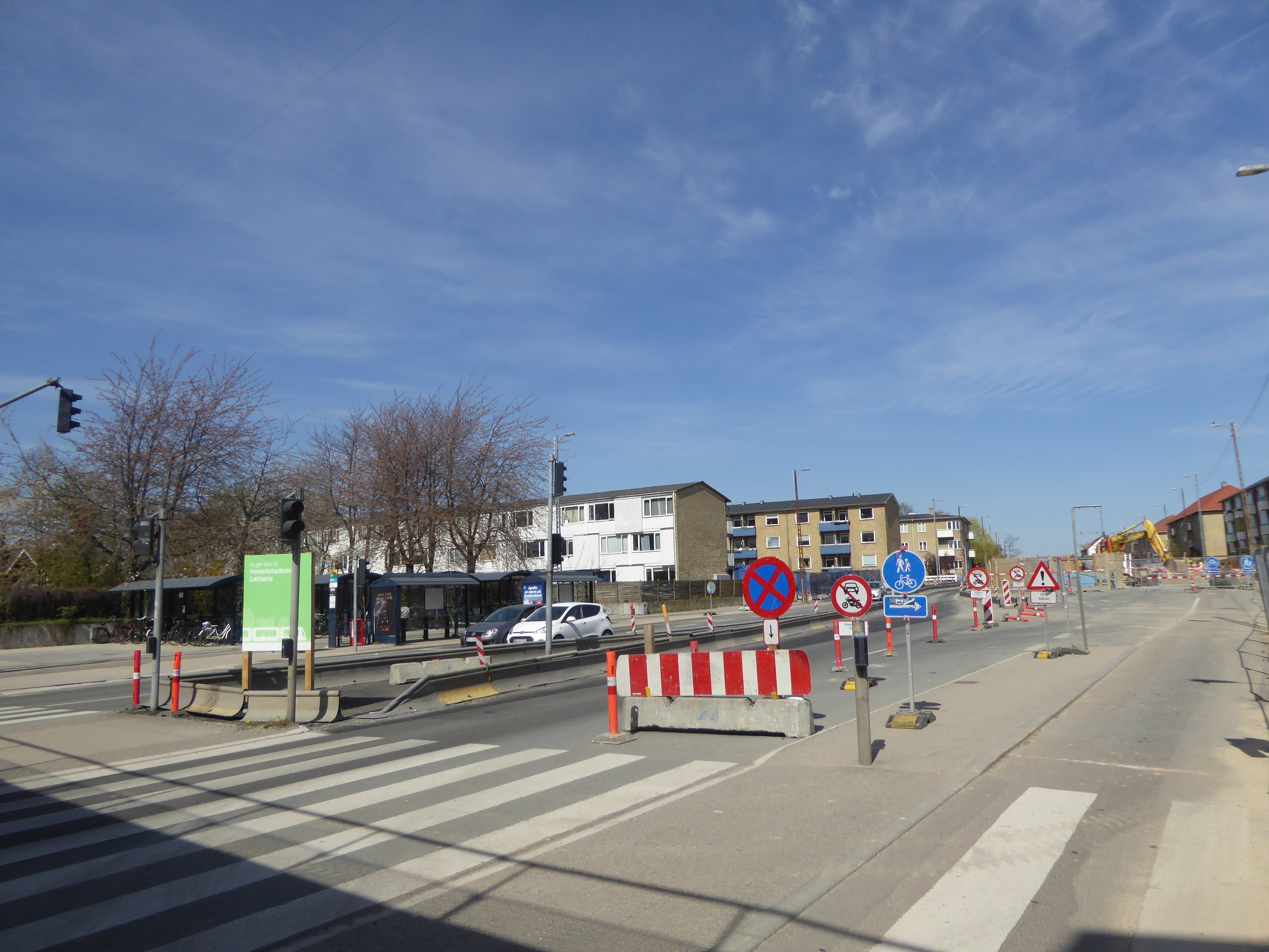 Construction works for Hovedstadens Letbane on Buddingevej at Buddinge Station in Copenhagen. When Hovedstadens Letbane opens in 2025 it will have at station in the middle of the street.